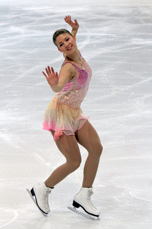 Cecilia Törn at the 2011 European Figure Skating Championships